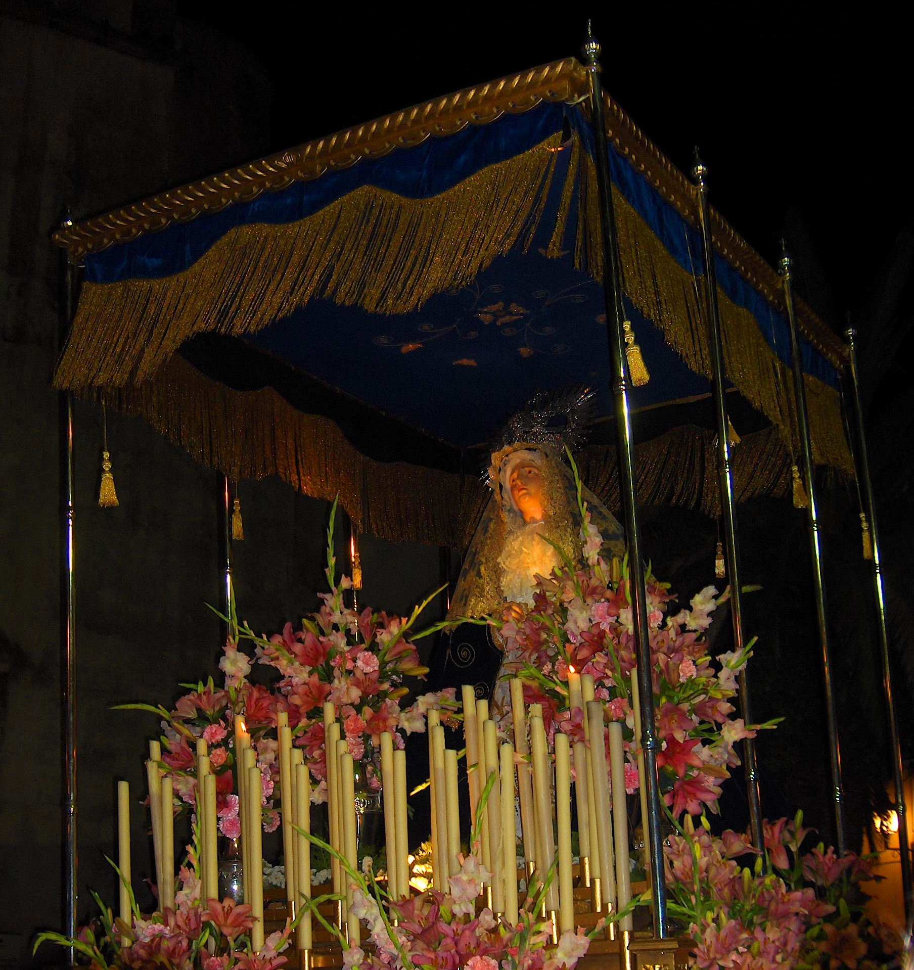 refugio